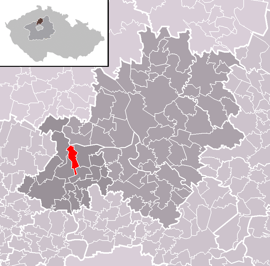 Location of Všestudy municipality within Mělník District and administrative area of Kralupy nad Vltavou as a Municipality with Extended Competence.